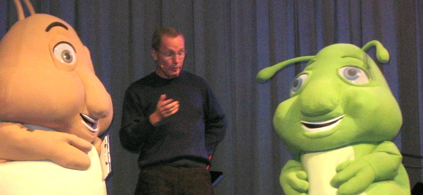 Max Lucado with two people dressed as the characters Hermie and Wormie from Lucado's video series Hermie and Friends